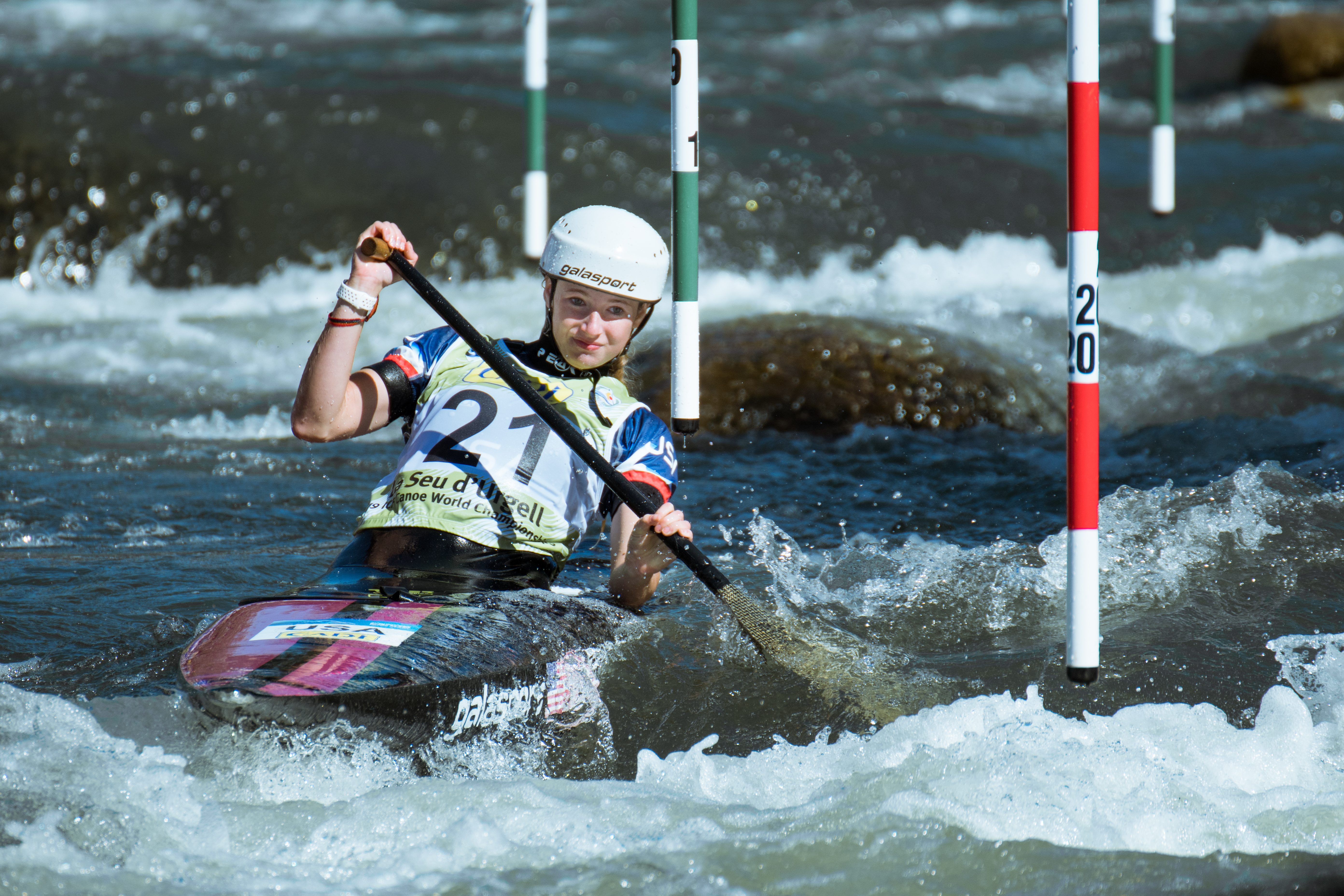 Evy Leibfarth during the 2019 Canoe Slalom World Championships in La Seu d'Urgell, Spain.